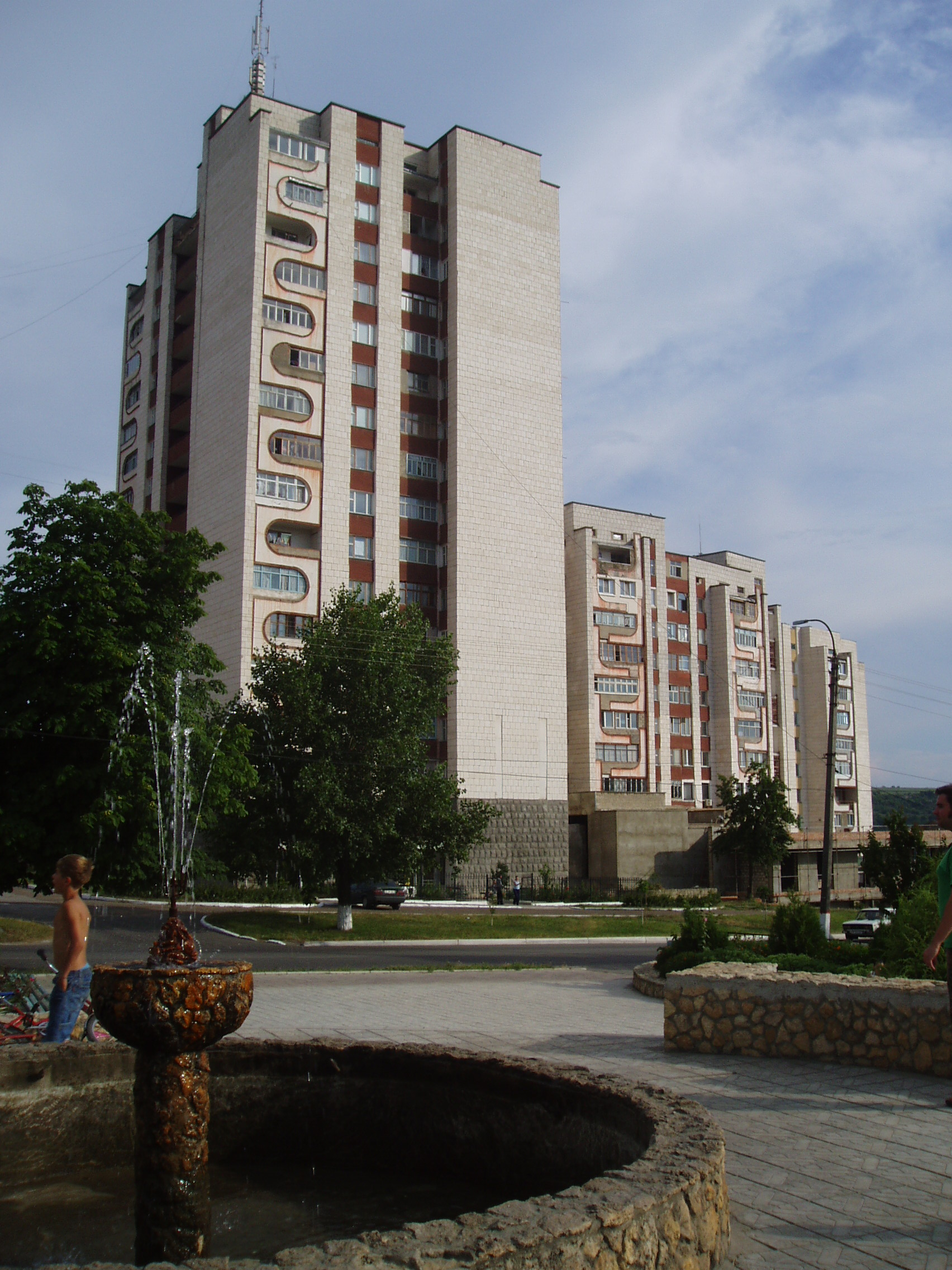 The buildings in Ribniţa were noticeably better kept than the equals in Chisinau. In Ribniţa, Transnistria, Moldova.